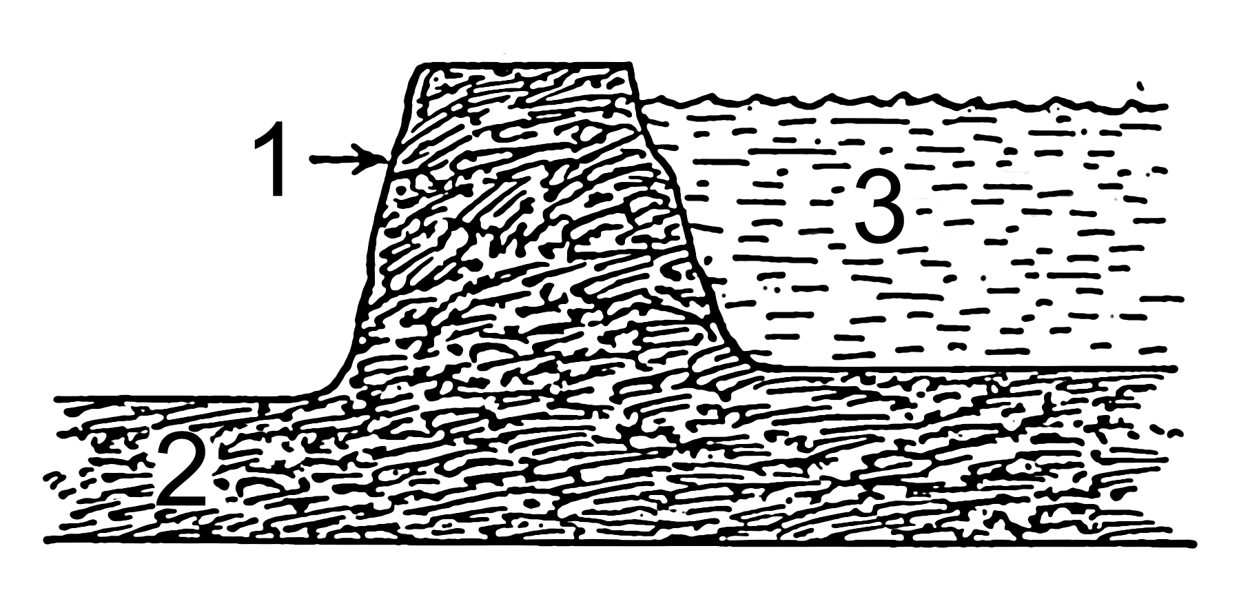 Line art drawing of a dike. Dike Land Water